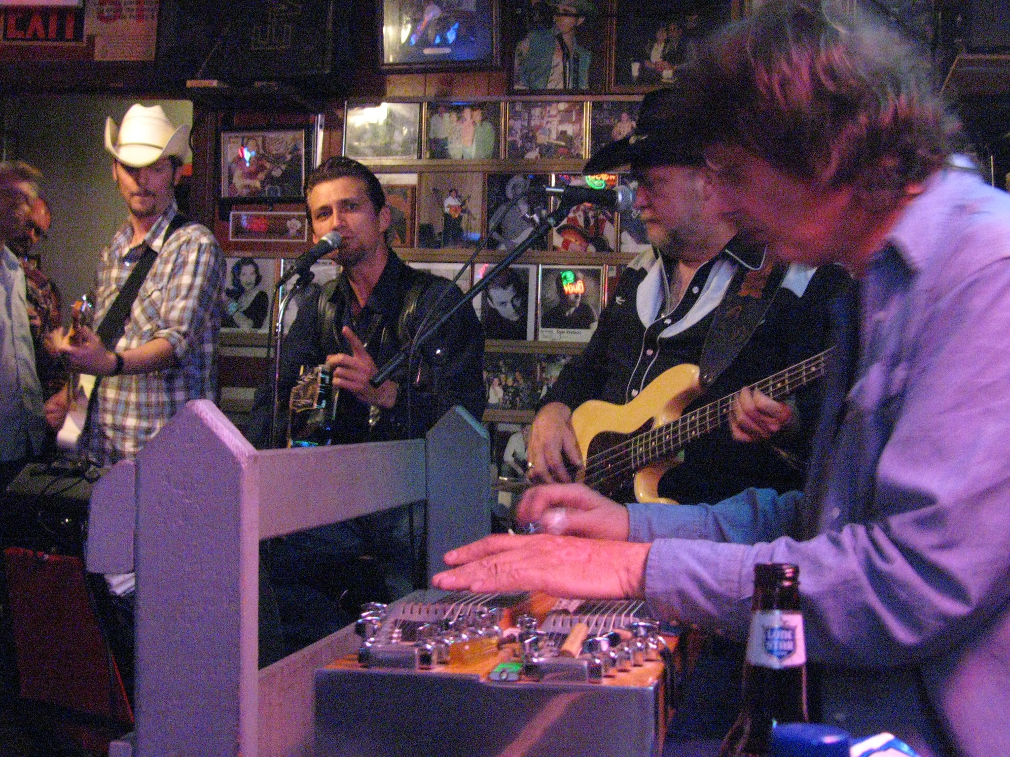 James Intveld played after Dale